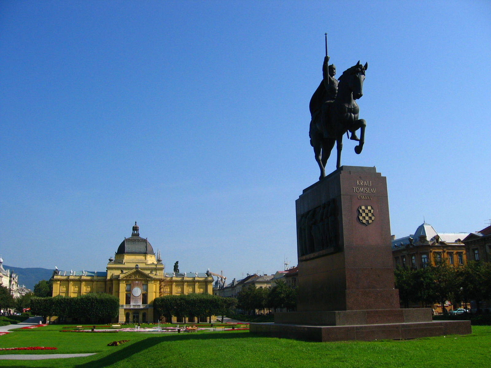 King Tomislav Statue, Zagreb, Croatia